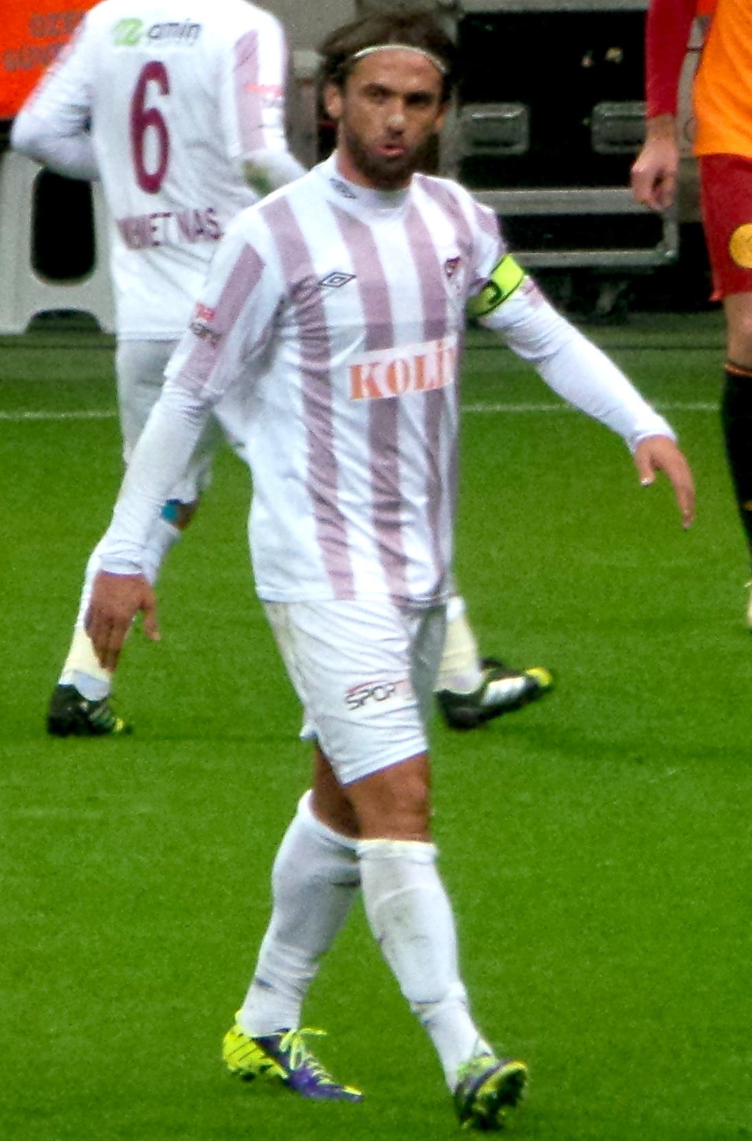 İbrahim Kaş